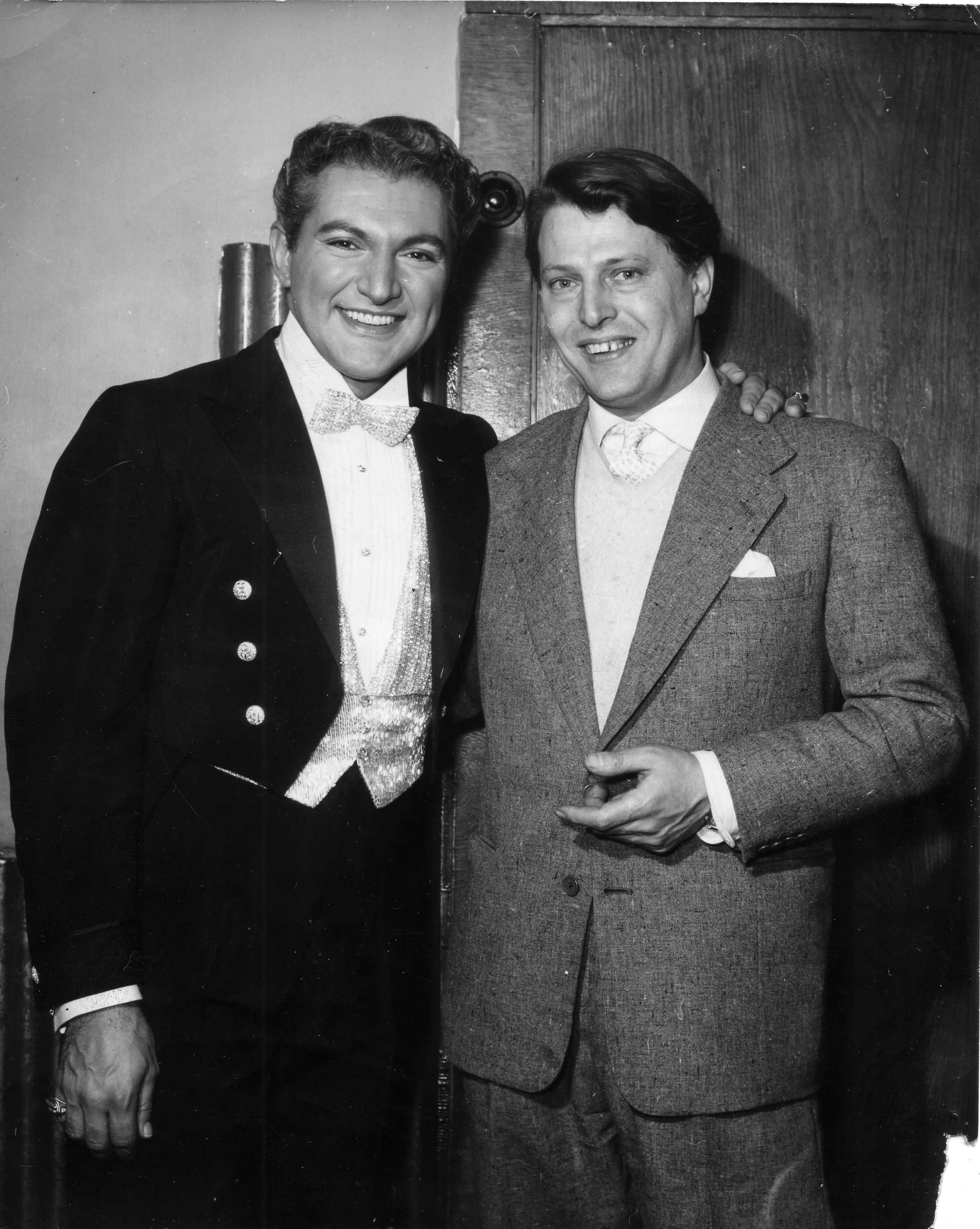 Barry Langford with Liberace posing in the Langford Silver Shop In London, England